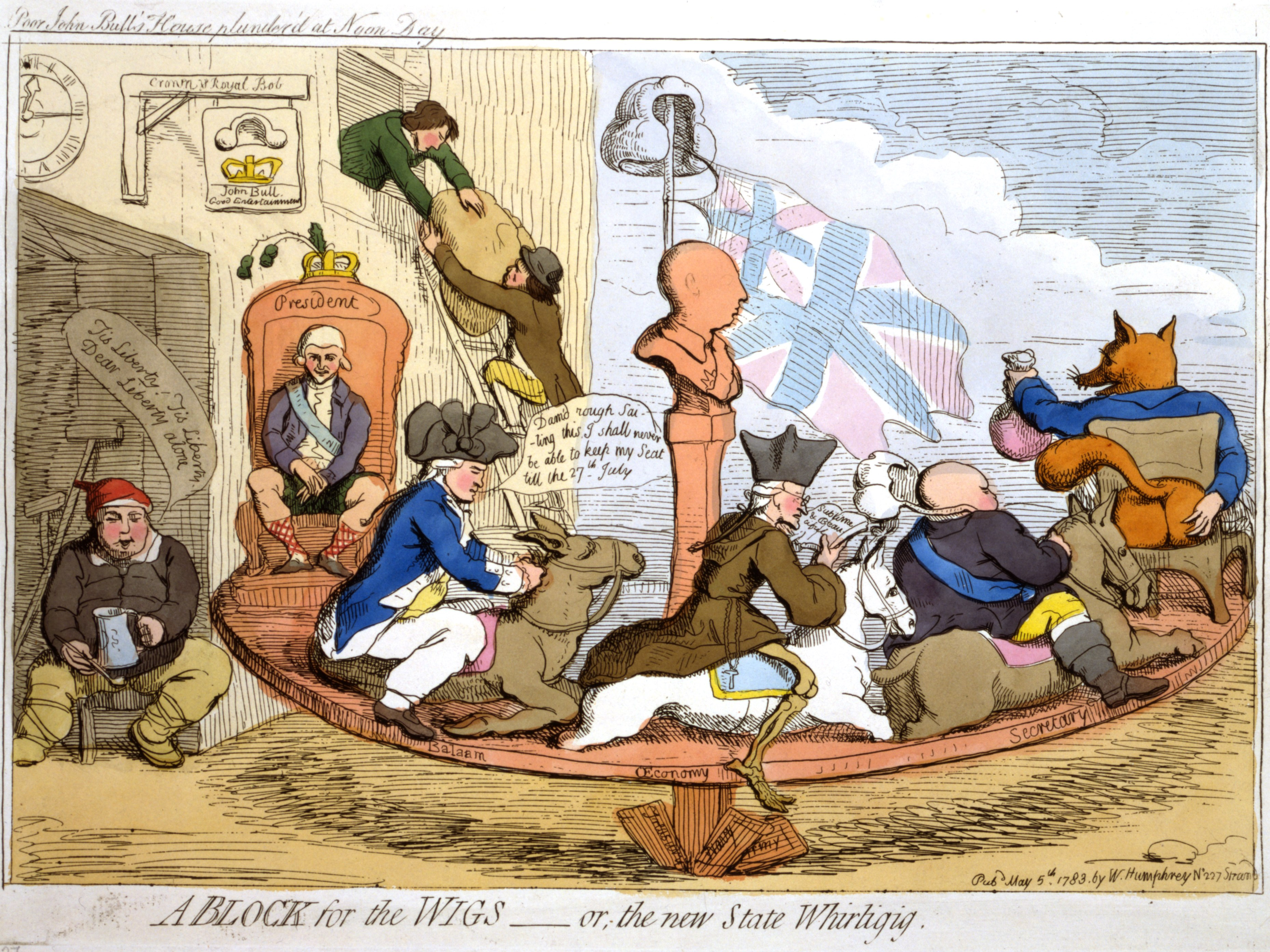 A Block for the Wigs—or, the new State Whirligig Js. Gy. d. & ft. SUMMARY: Cartoon shows a carousel on which sit government ministers Charles Fox, Lord North, Edmund Burke and Admiral Keppel. Beam in the center of the carousel platform is a pillar topped by a bust of King George III, a wig and Union Jack suspended over the bust. In the background two robbers lower a large bundle from the window of a building. An inscription above the cartoon reads "Poor John Bull's house plunder'd at noon day." MEDIUM: 1 print : etching. CREATED/PUBLISHED: [London] : W. Humphrey, 1783 May 5th. Puns include wig for Whig and block for the device for beheading, the head-shaped device for forming wigs, and blockhead as in stupid person. Burke is dressed as a Jesuit, is reading from Sublime and Beautiful, and has a skeleton for a leg.